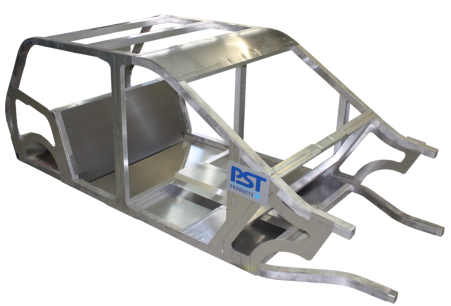 EMPT welding of space frames at PSTproducts GmbH